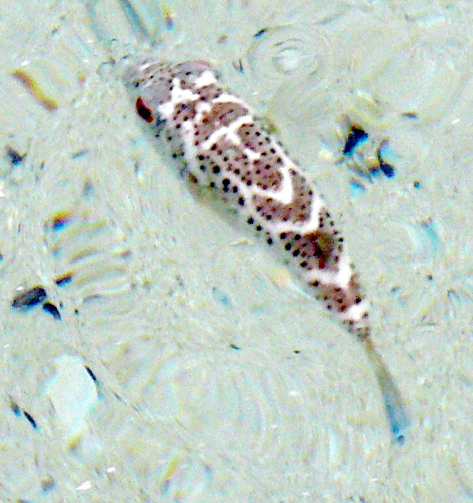 Bullseye puffer (Sphoeroides annulatus)